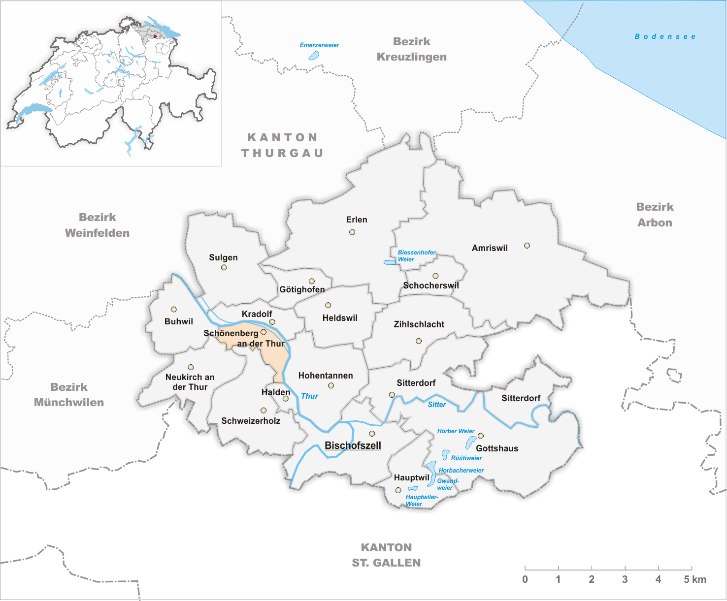 Municipality Schönenberg